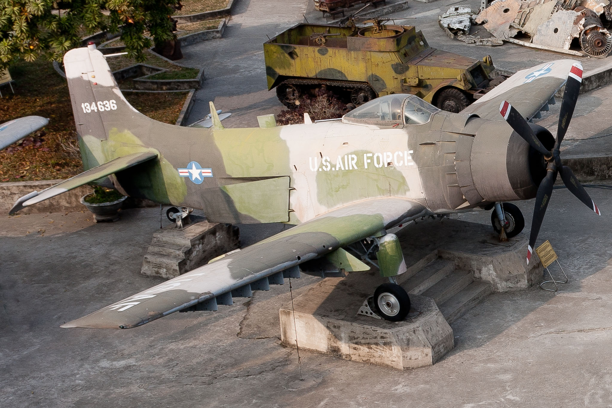 USAF A-1H Skyraider on display at the Viet Nam Military History Museum in Ha Noi in February 2009.